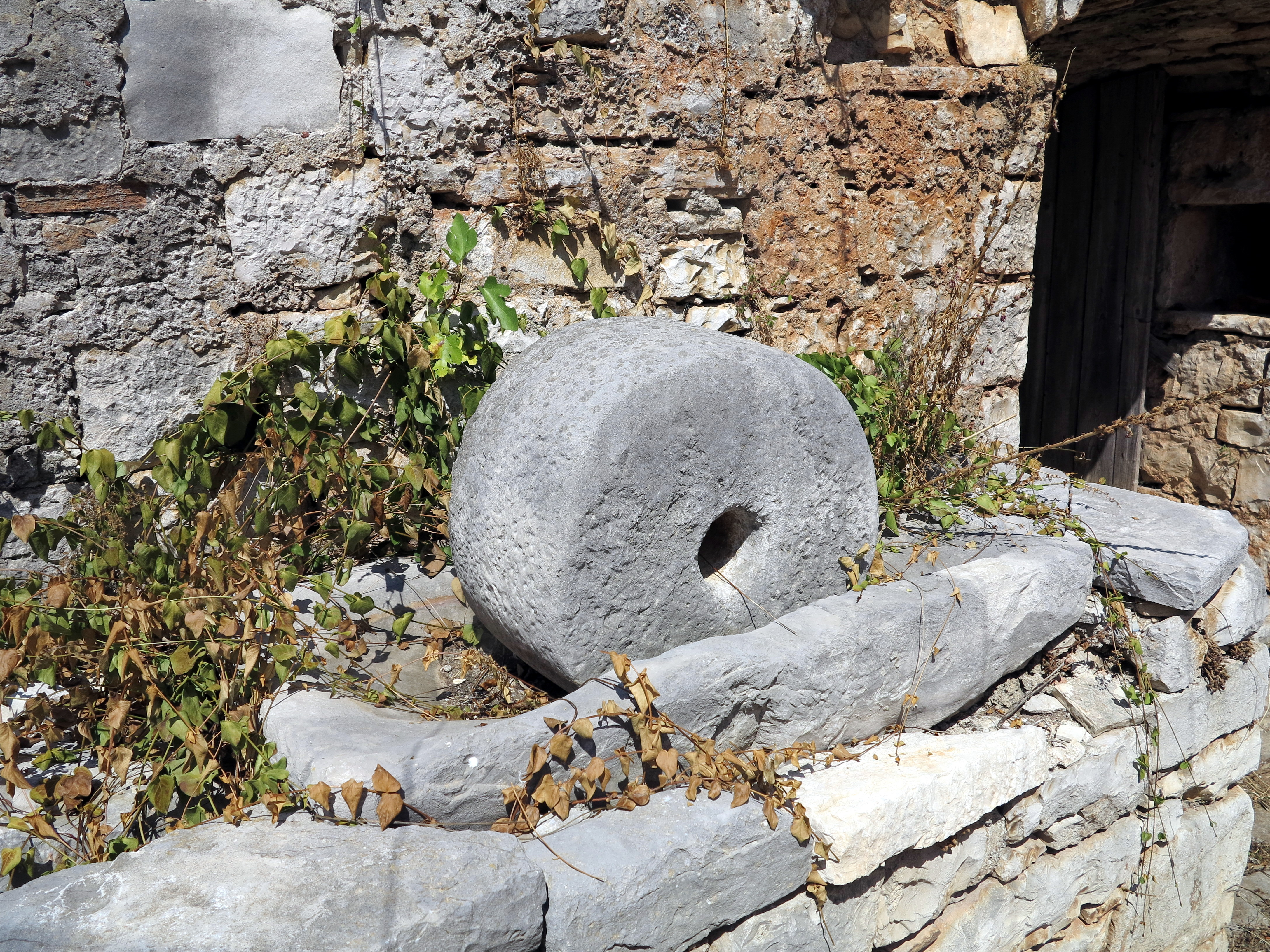 Stone olive press with a stone basin made from limestone in Grohote on the island Šolta / Croatia / Adriatic Sea.